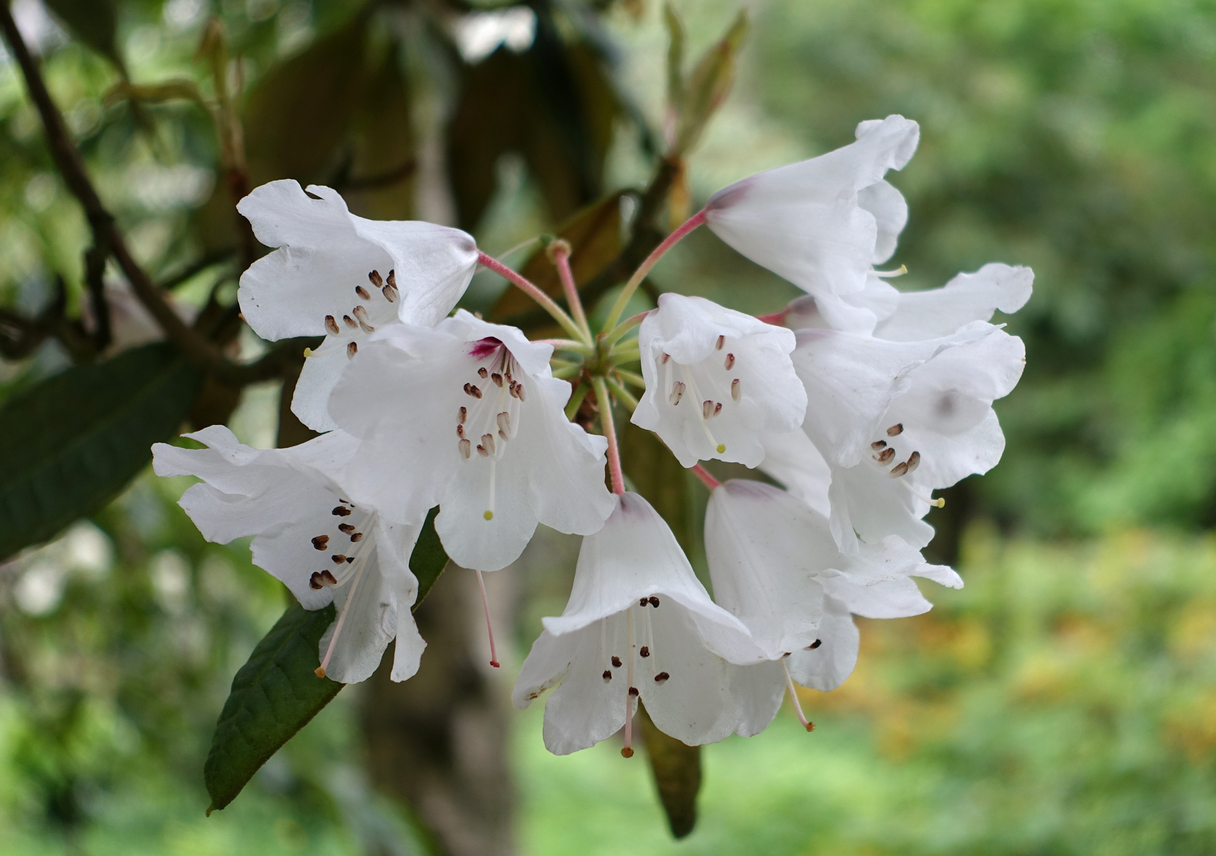 Horticultural specimen in RHS Garden Harlow Carr - North Yorkshire, England.